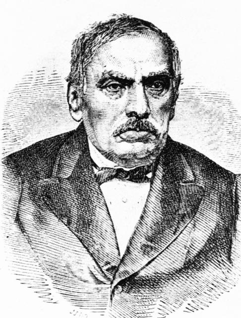 Portrait of Samuel Orgelbrand